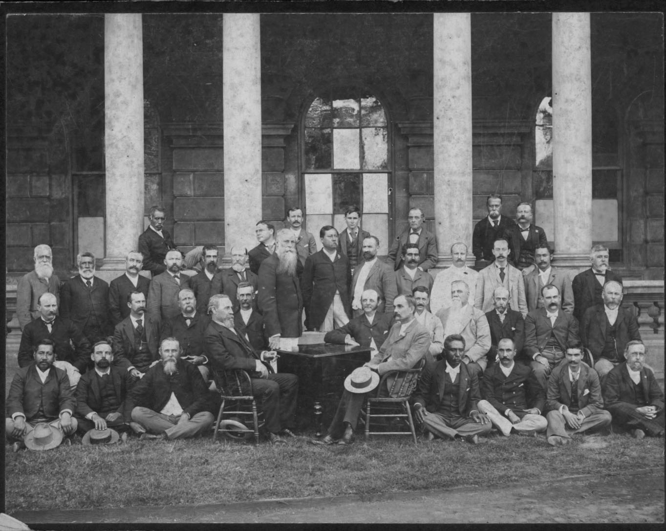 Members of the Constitutional Convention, Republic of Hawaii, 1894.